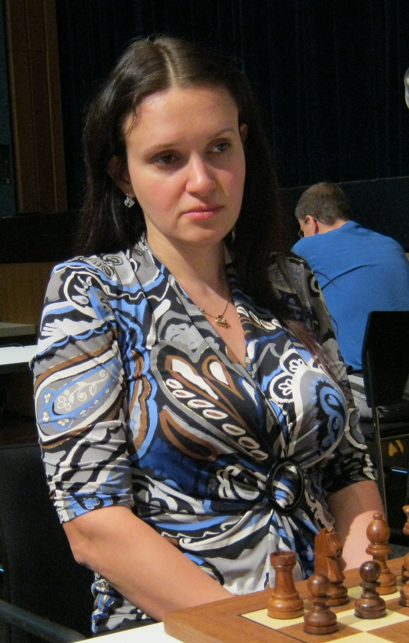 Anna Zatonskih, woman grandmaster, at Mainz Chess Classic